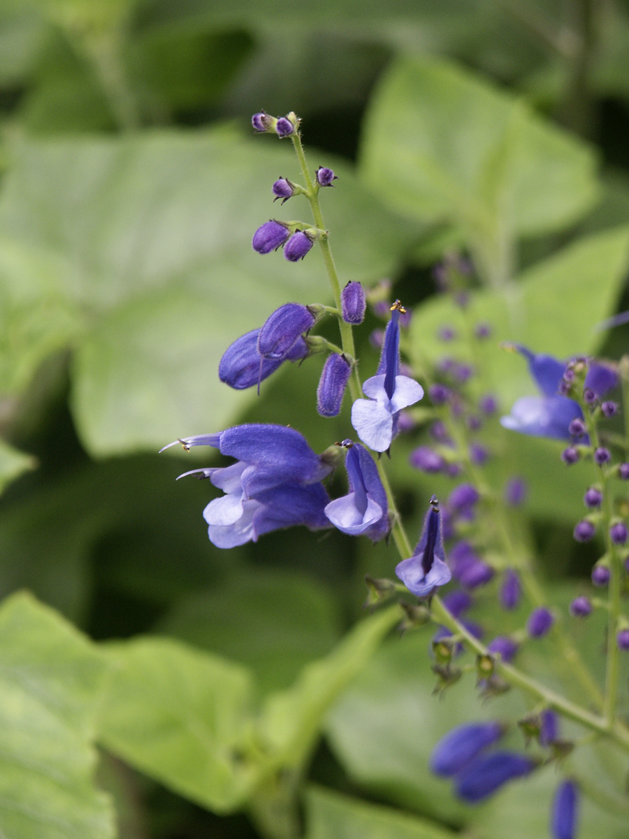 San Francisco Bot Garden, Strybing Arboretum, CA